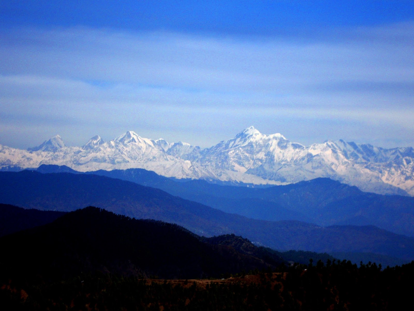 view of Himalayas on a snowy day